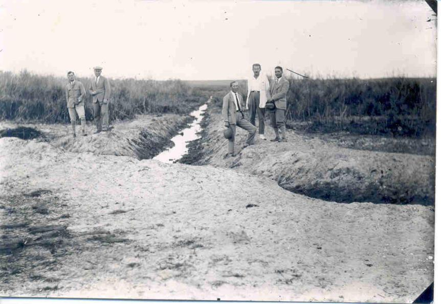 Hadera drainage, Settlements in Israel